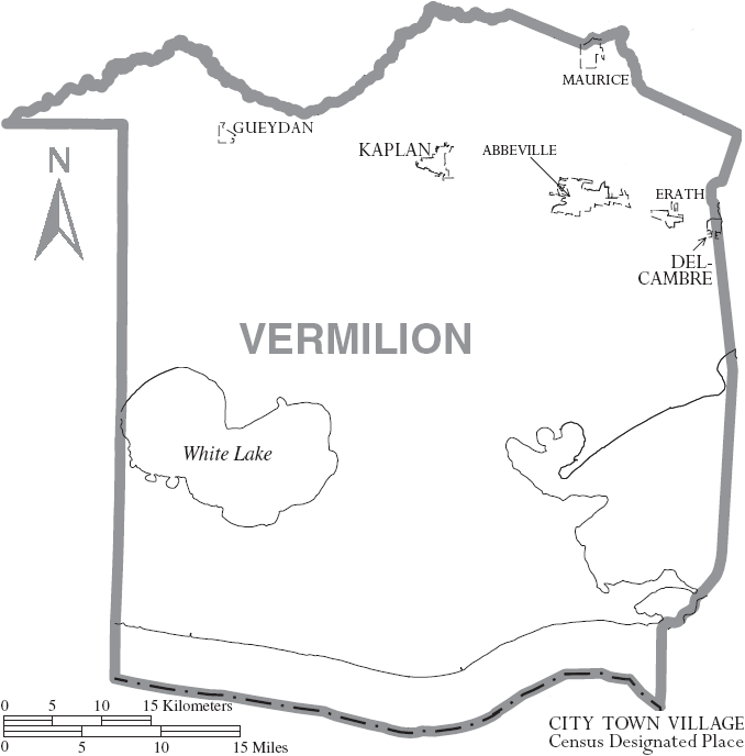 Map of Vermilion Parish, Louisiana, United States with municipal boundaries